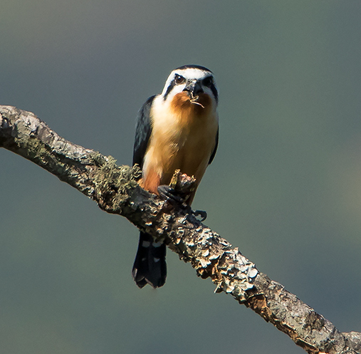 at Mahananda WLS West Bengal, India